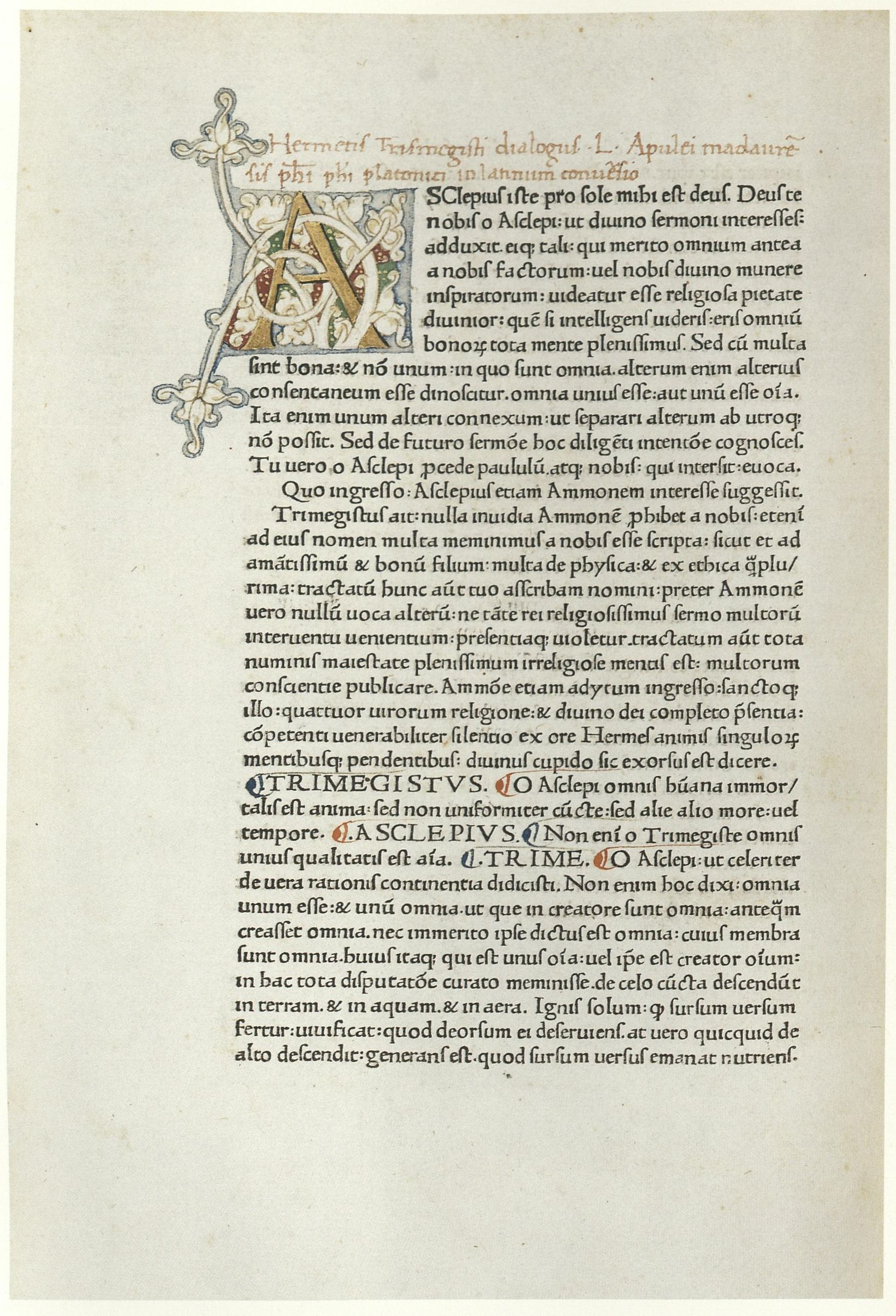 The beginning of the Hermetic dialogue Asclepius in the incunabulum printed at Rome (editio princeps).